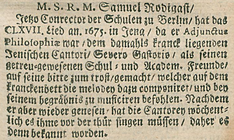 Brief biographical description of Samuel Rodigast, vice-rector (1680−1698) and then rector (1698−1708) of the Berliner Gymnasium. Nordhausen Gesangbuch of 1695, reprinted from 1687 edition